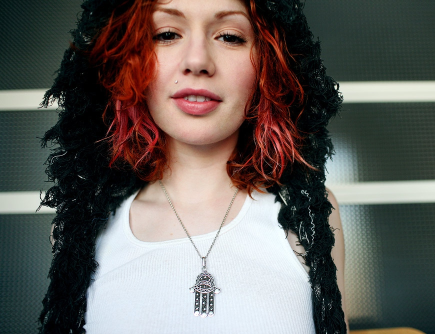 Magic Hat